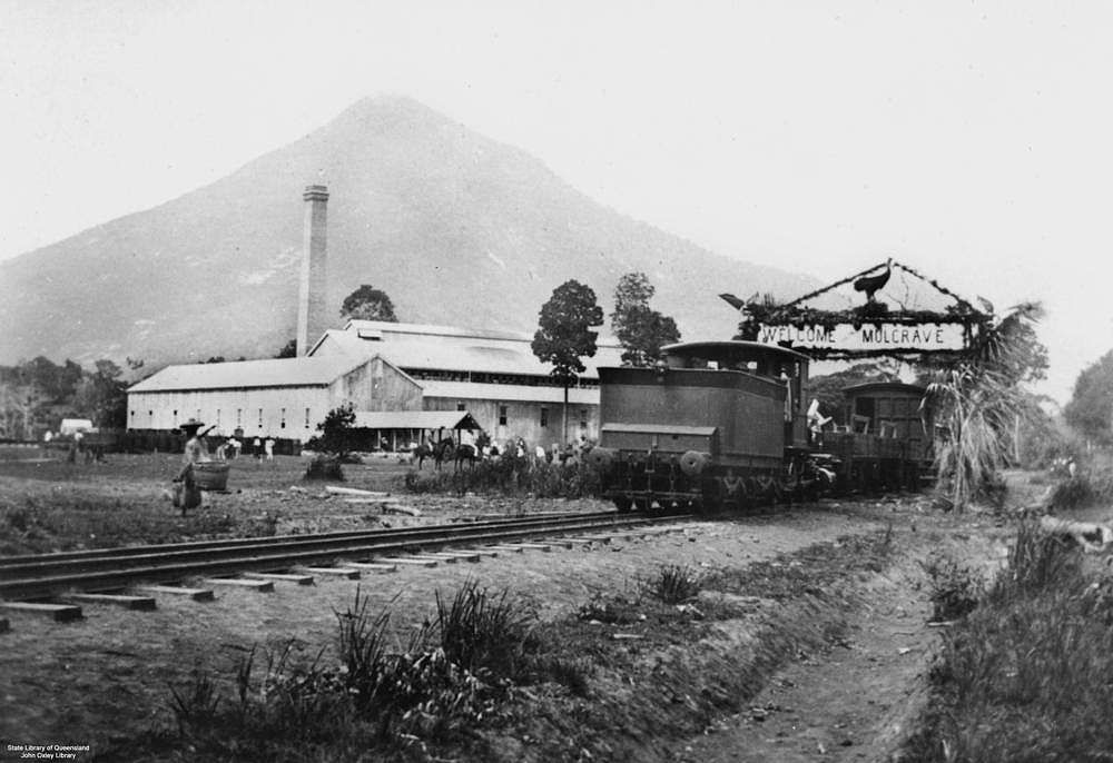 Opening celebrations of the Cairns-Mulgrave tramway on the 3rd May, 1897. The buildings of the Mulgrave sugar mill at Gordonvale appear in the background. The tram line has been decorated with the banner 'Welcome to Mulgrave' and a locomotive is on the tracks.